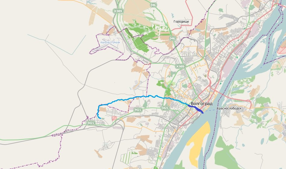 River Tsaritsa (Volgograd oblast)